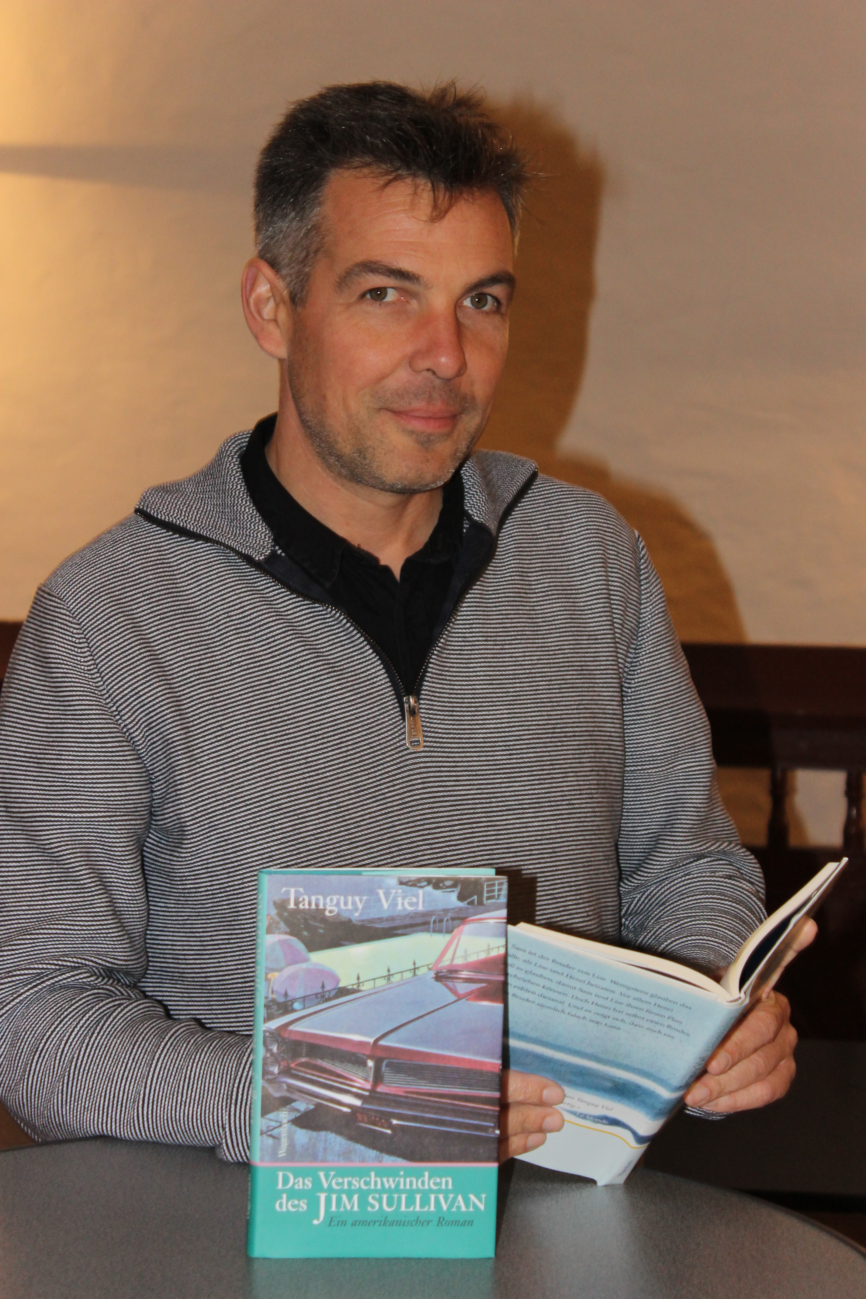 French author Tanguy Viel at a reading in Osnabrück, Germany, in November 2015